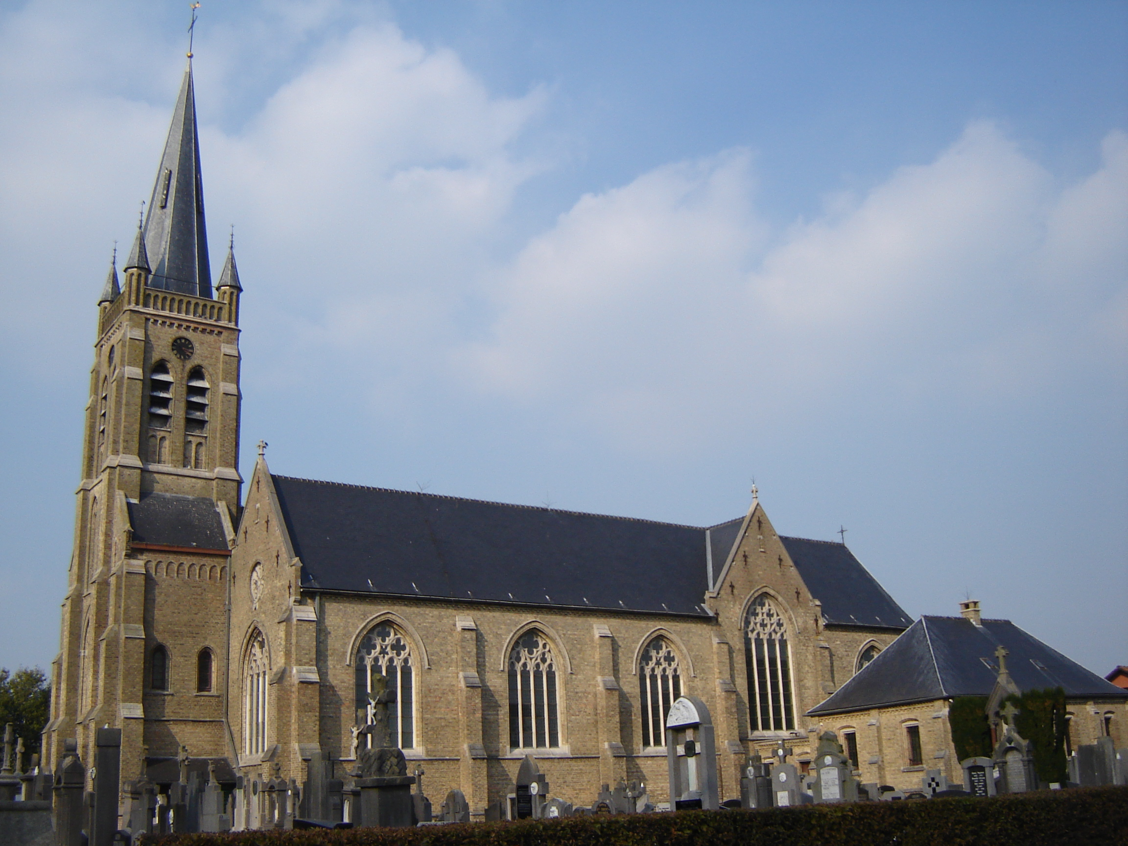 Church of Saint John Baptist in Dikkebus. Dikkebus, Ieper, West Flanders, Belgium